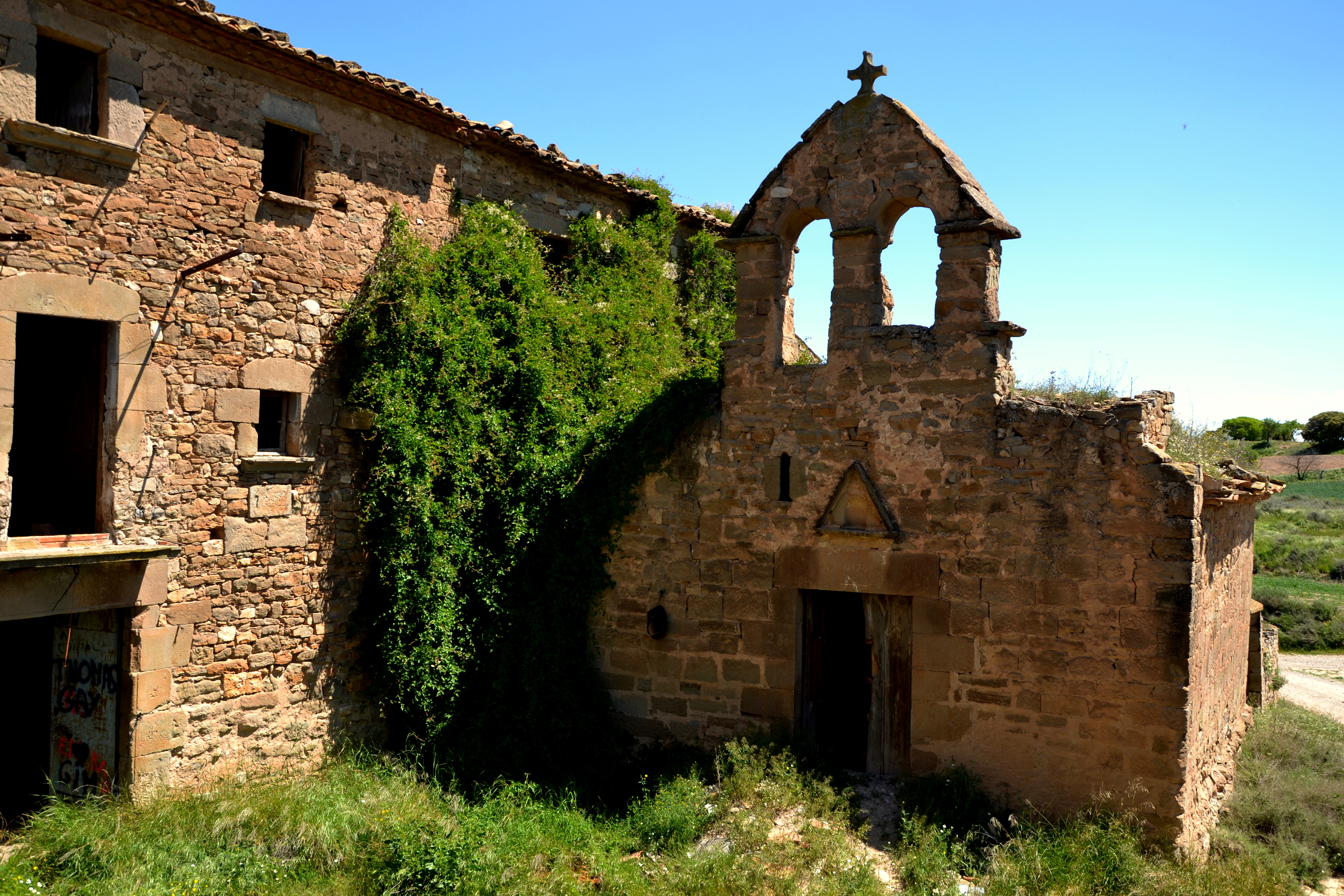 Church of Mare de Déu del Roser, in Conill, Tàrrega, Catalonia